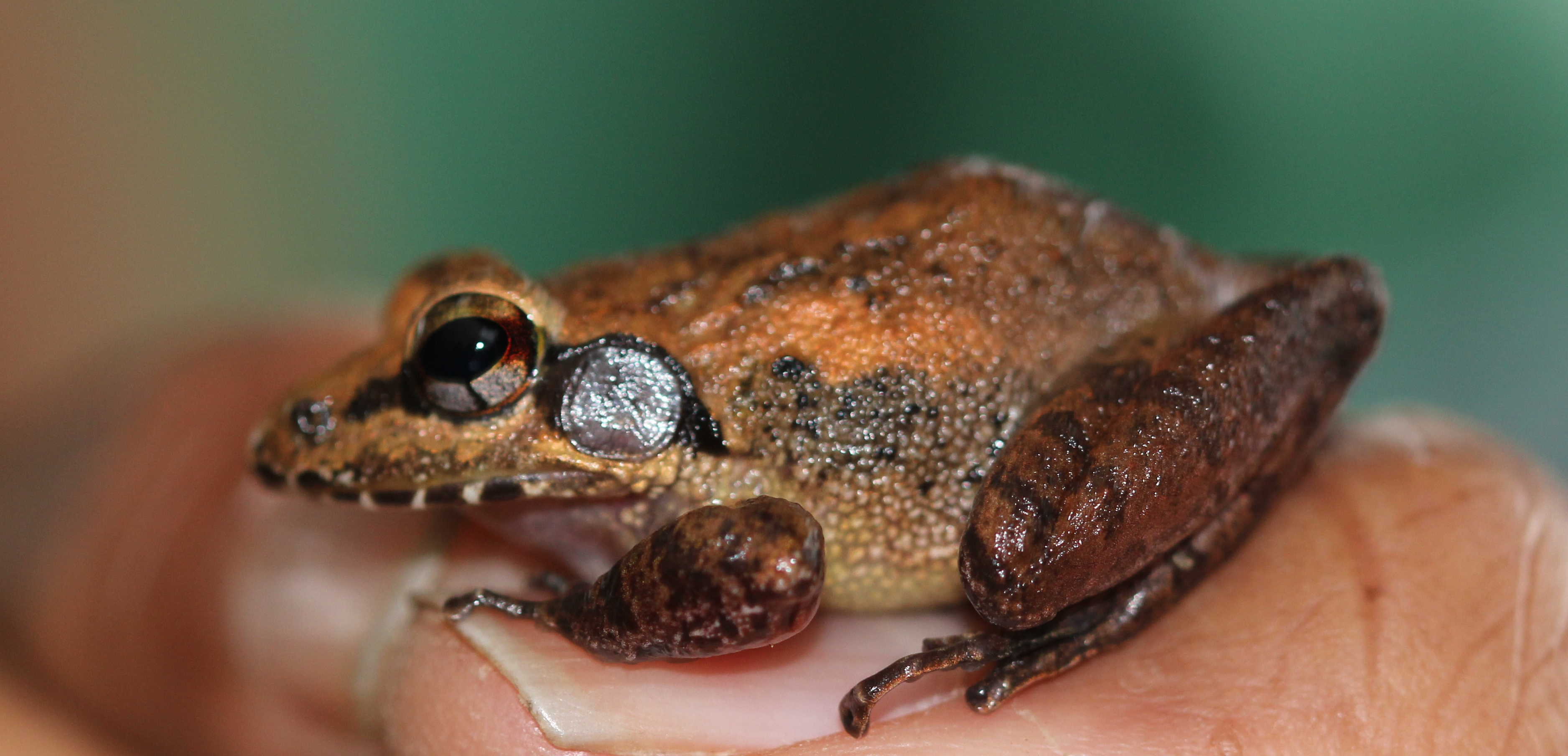 Indirana semipalmata is small frog found in westren ghats of india